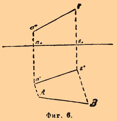 Illustration from Brockhaus and Efron Encyclopedic Dictionary (1890—1907)